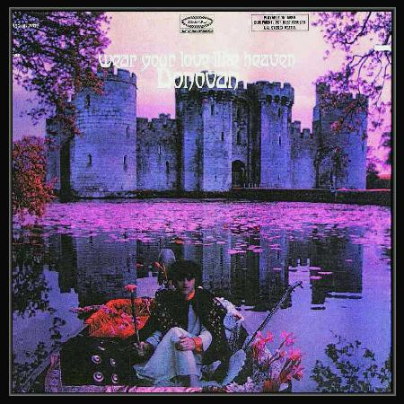 Donovan "Wear Your Love Like Heaven" album cover photo, (Karl Ferris copyright)